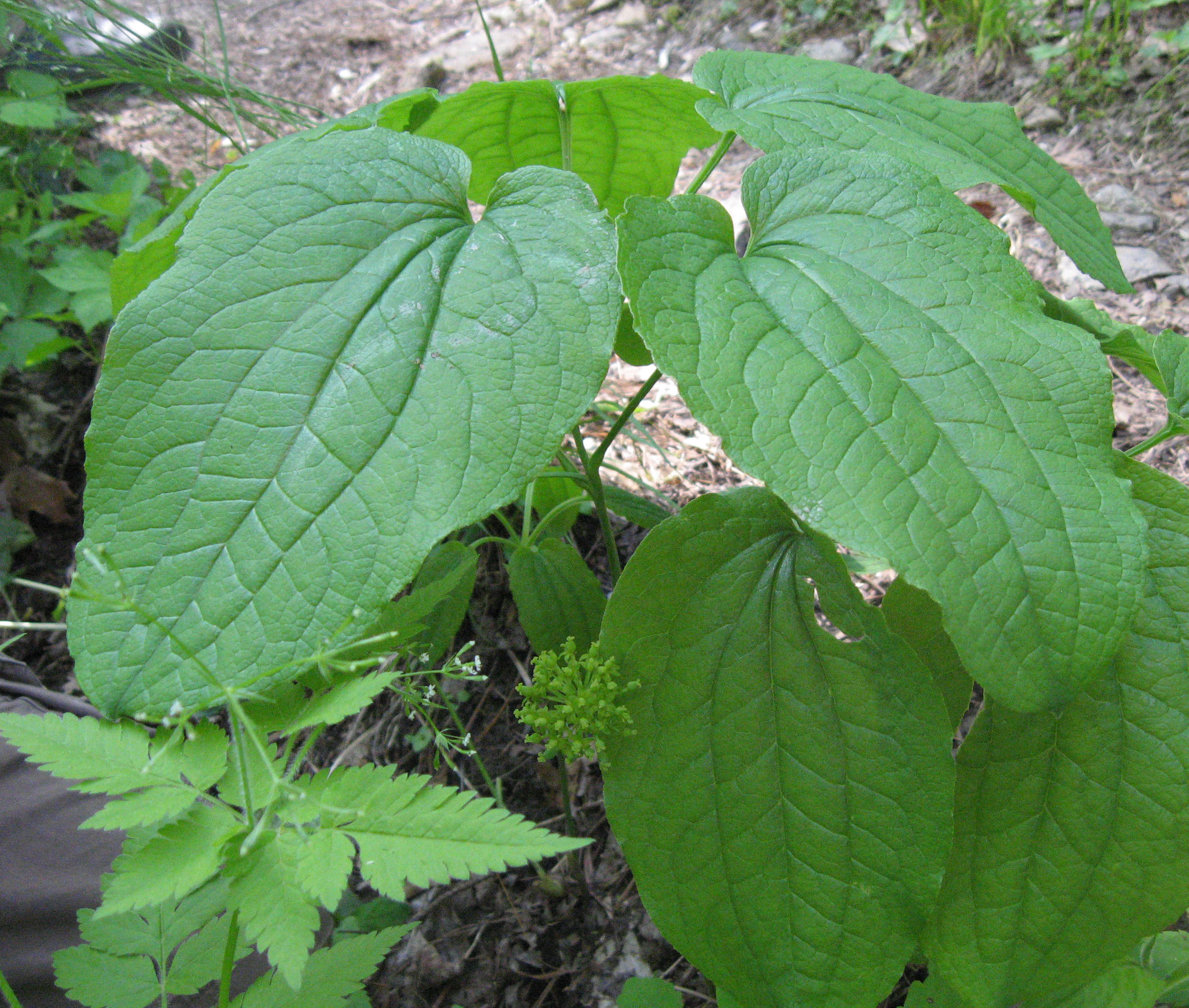 Smilax ecirrhata on Whittleton Arch Trail in the Red River Gorge, Powell County, Kentucky